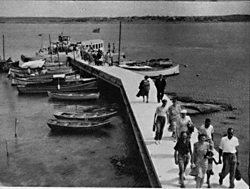 Island Knarrholmen, archipelago of Gothenburg, Sweden.